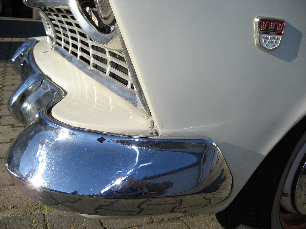 FORD Taunus 17M P2(TL) deLuxe Two door 1958 Bumper